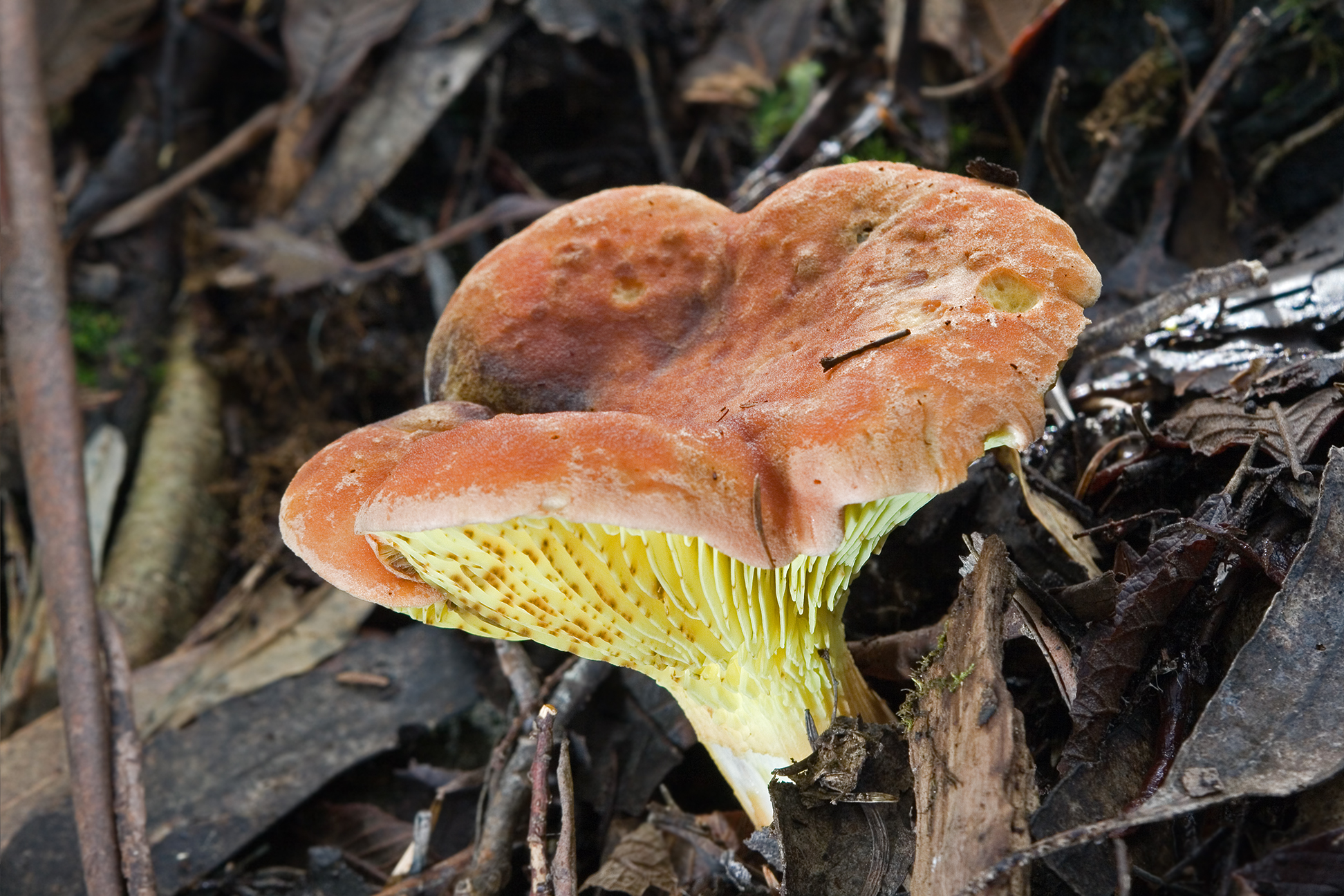 Phylloporus rhodoxanthus. Wielangta Forest, Tasmania Camera data Camera Canon EOS 400D Lens Tamron EF 180mm f3.5 1:1 Macro Flash Fill Bottom left Focal length 180 mm Aperture f/11 Exposure time 1/20 s Sensivity ISO 200